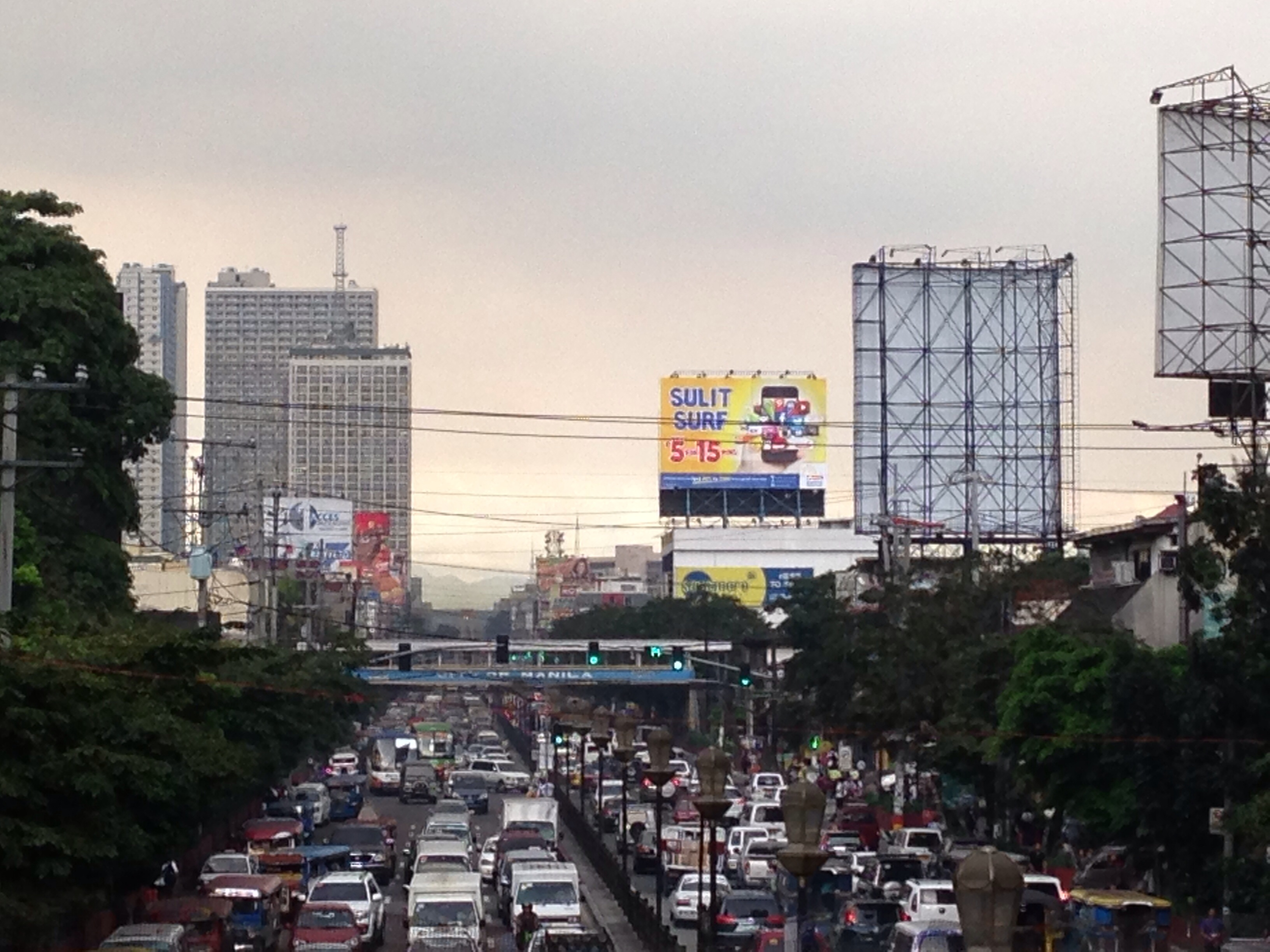 Afternoon rush hour at España Boulevard, Sampaloc, Manila, Philippines